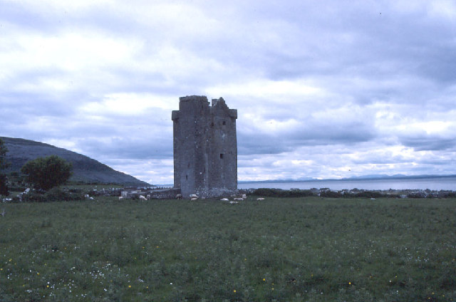 Gleninagh Castle. Situated on the coast of The Burren; Galway Bay in the background and Connemara in the far distance.